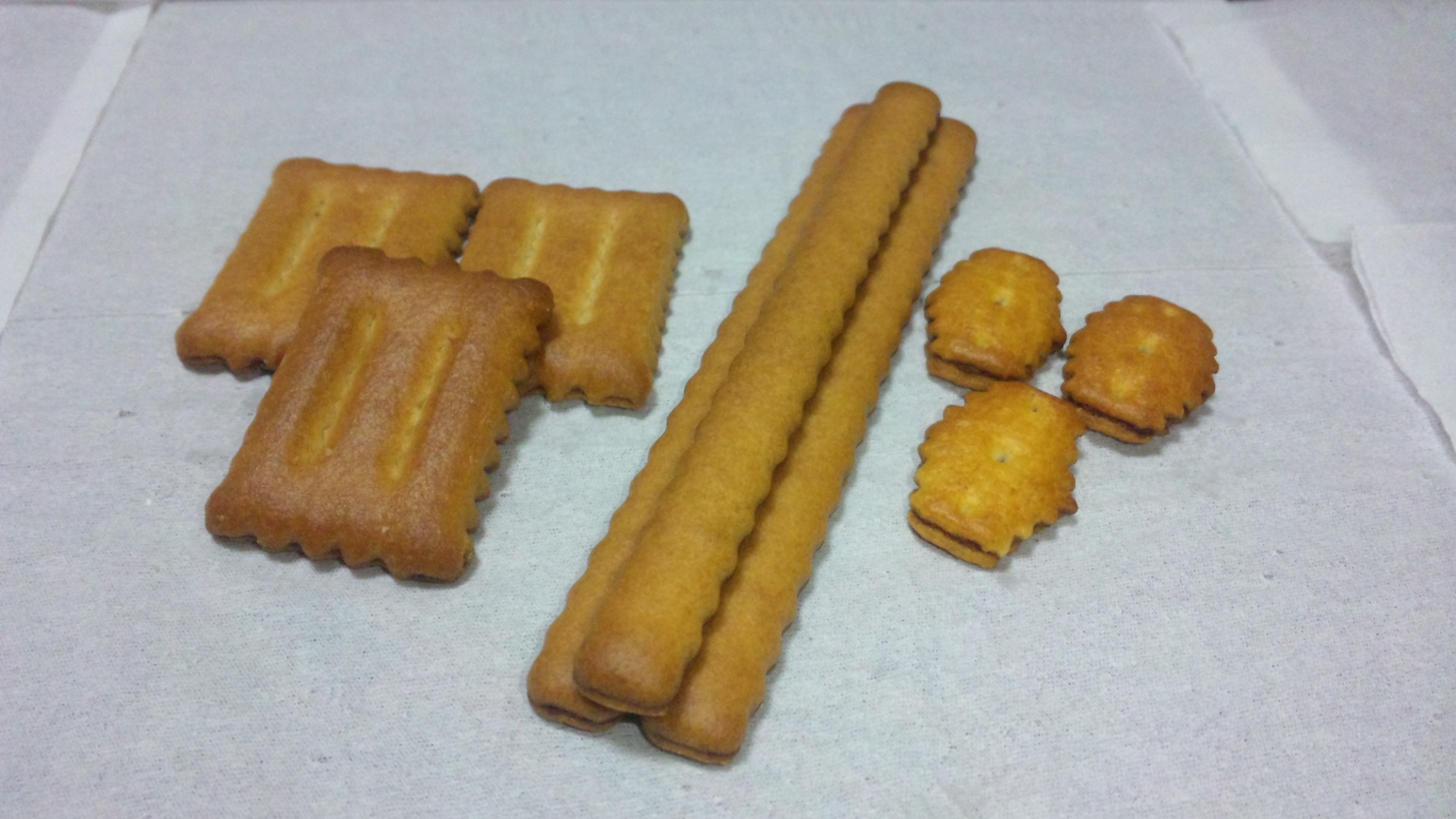 Siruko Sandwich series. Shiruko Sandwich(within Star Shiruko sandwich,the one that Shiruko sandwich was individually wrapped),Shiruko sandwich stick,Shiruko sandwich craker(Bean jam was placed with the cracker)